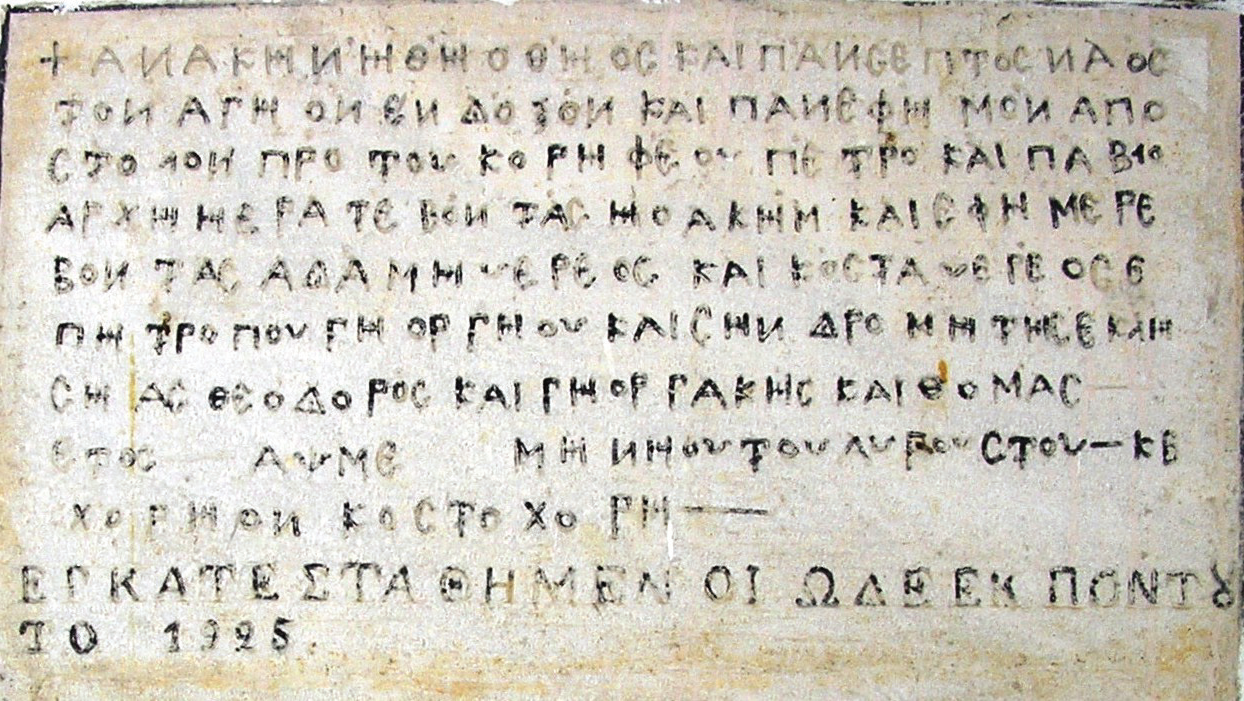 Peter and Paul Church in Kostochori Inscription